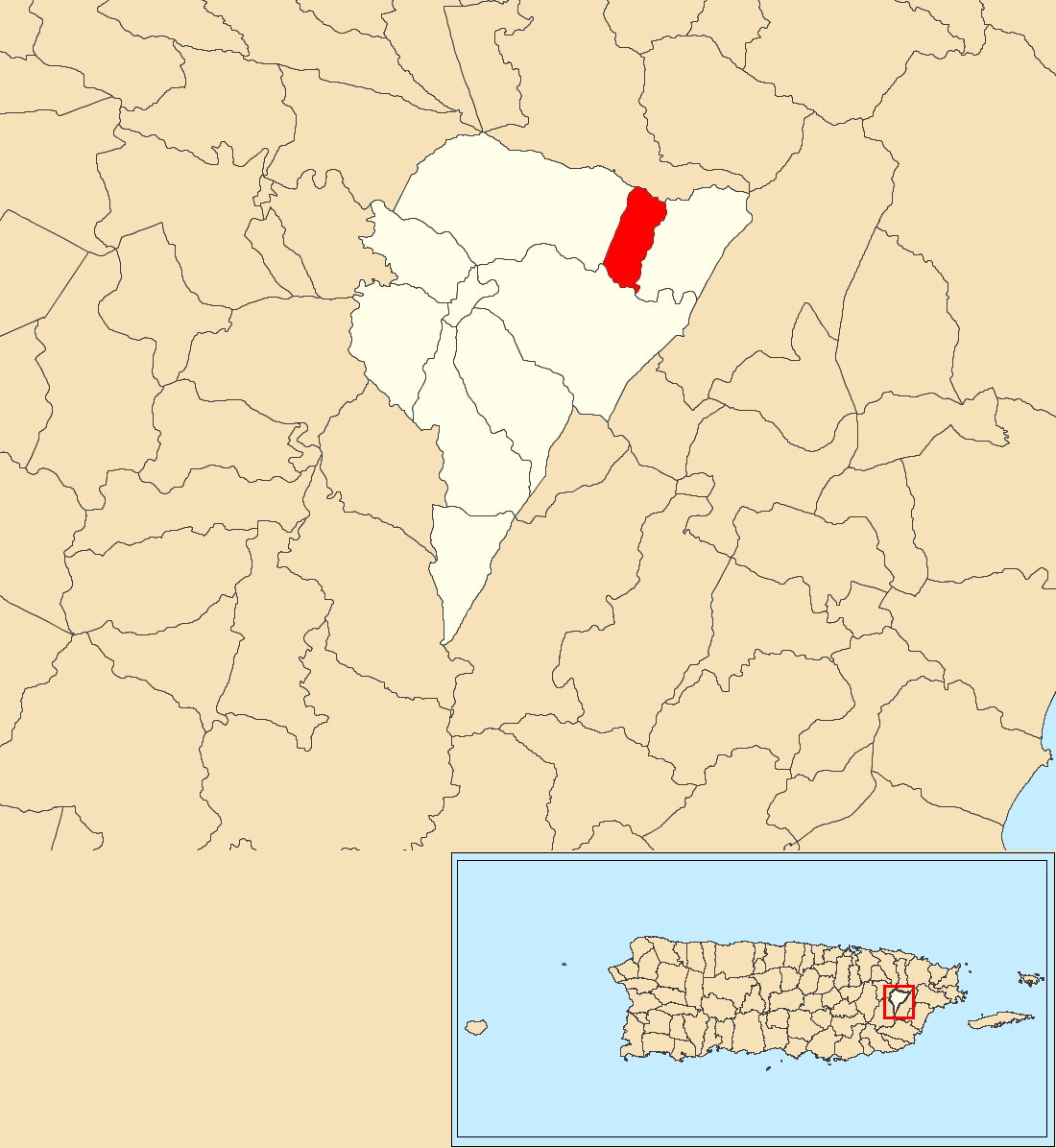 Gurabo Arriba, Juncos, Puerto Rico locator map